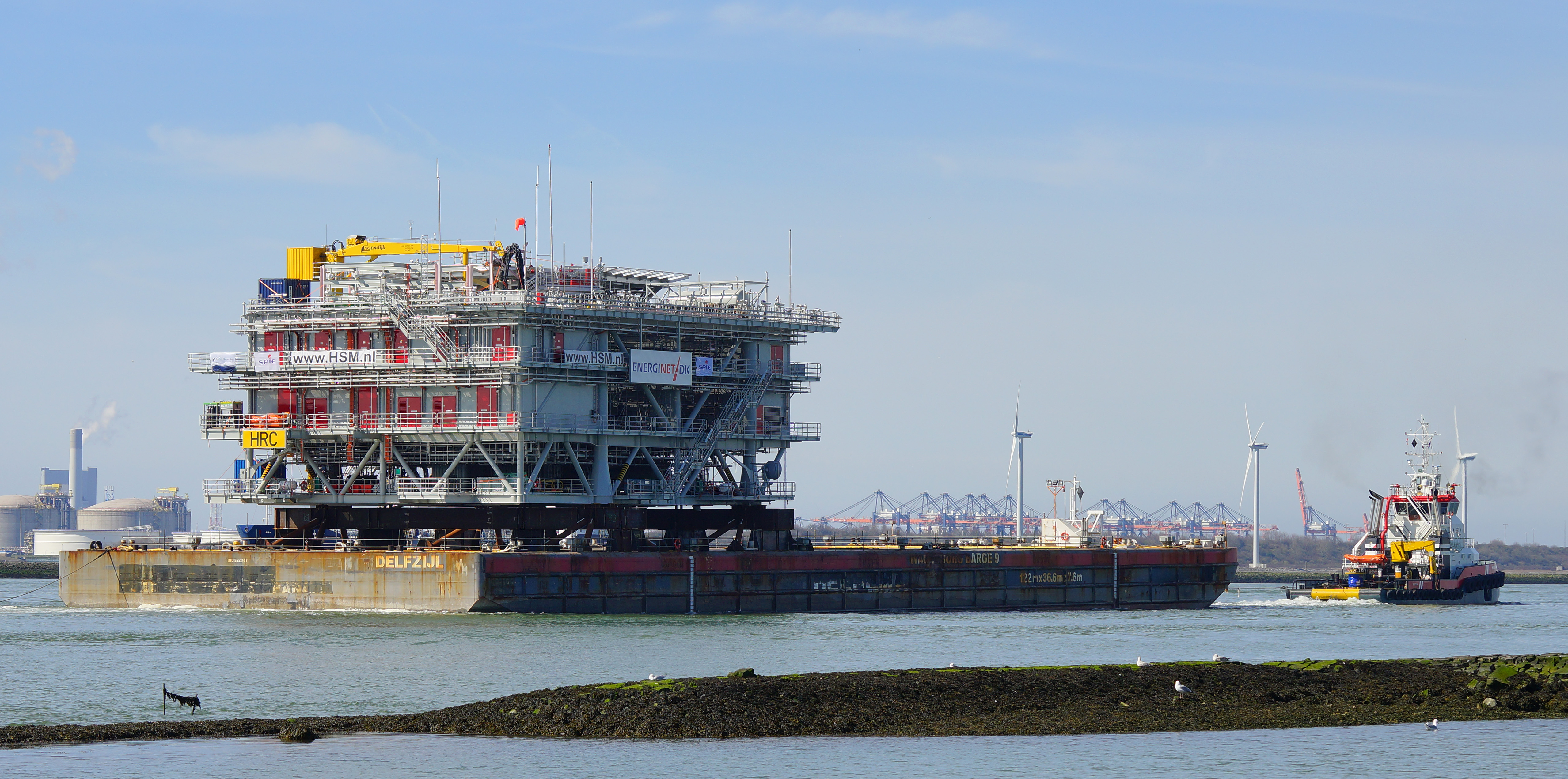 Transport of Horns Rev C offshore substation (topside) on Wagenborg Barge 9, Nieuwe Waterweg, NL